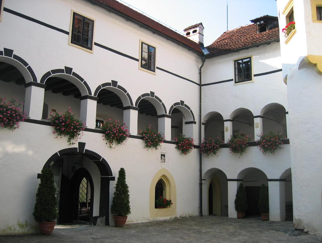 Courtyard of Bogenšperk Castle, Slovenia